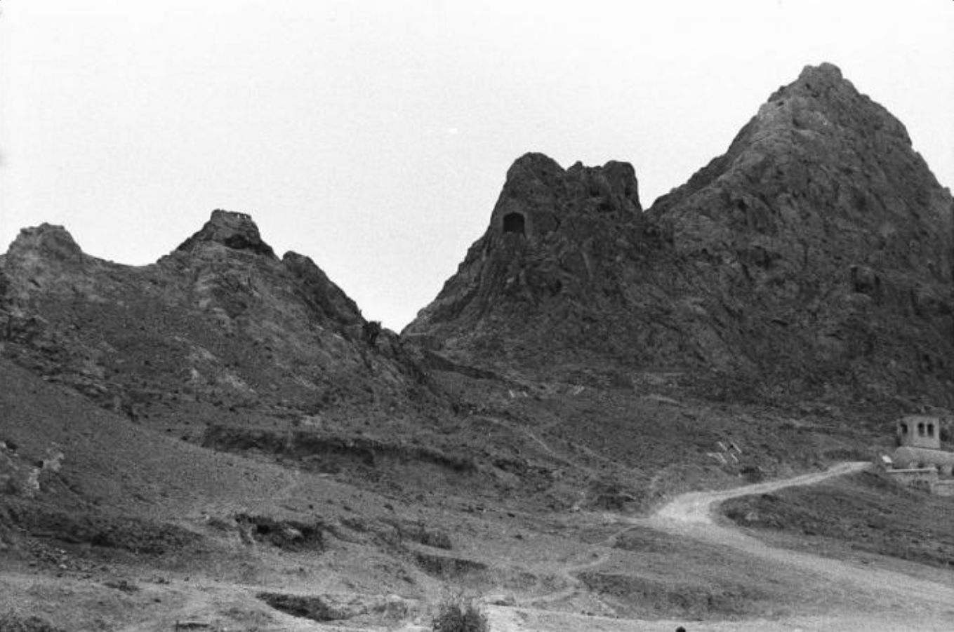 Chil Zena wide